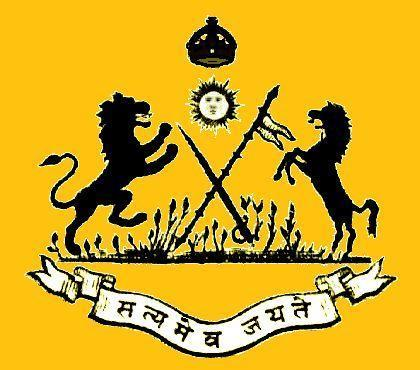 Coat of arms of Baraundha State This work is in the public domain in India because its term of copyright has expired. The Indian Copyright Act applies in India, to works first published in India. According to The Indian Copyright Act, 1957 (Chapter V Section 25), Anonymous works, photographs, cinematographic works, sound recordings, government works, and works of corporate authorship or of international organizations enter the public domain 60 years after the date on which they were first published, counted from the beginning of the following calendar year (ie. as of 2019, works published prior to 1 January 1959 are considered public domain). Posthumous works (other than those above) enter the public domain after 60 years from publication date. Any other kind of work enters the public domain 60 years after the author's death. Text of laws, judicial opinions, and other government reports are free from copyright. Photographs created before 1959 are in the public domain 50 years after creation, as per the Copyright Act 1911. This file may not be in the public domain outside India. The creator and year of publication are essential information and must be provided. See Wikipedia:Public domain and Wikipedia:Copyrights for more details. This image shows a flag, a coat of arms, a seal or some other official insignia. The use of such symbols is restricted in many countries. These restrictions are independent of the copyright status.